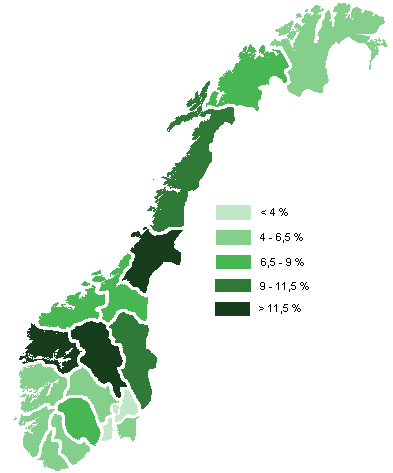 Map of the counties of Norway, showing the elections results for Senterpartiet in the different counties at the parliamentary elections of 2005.